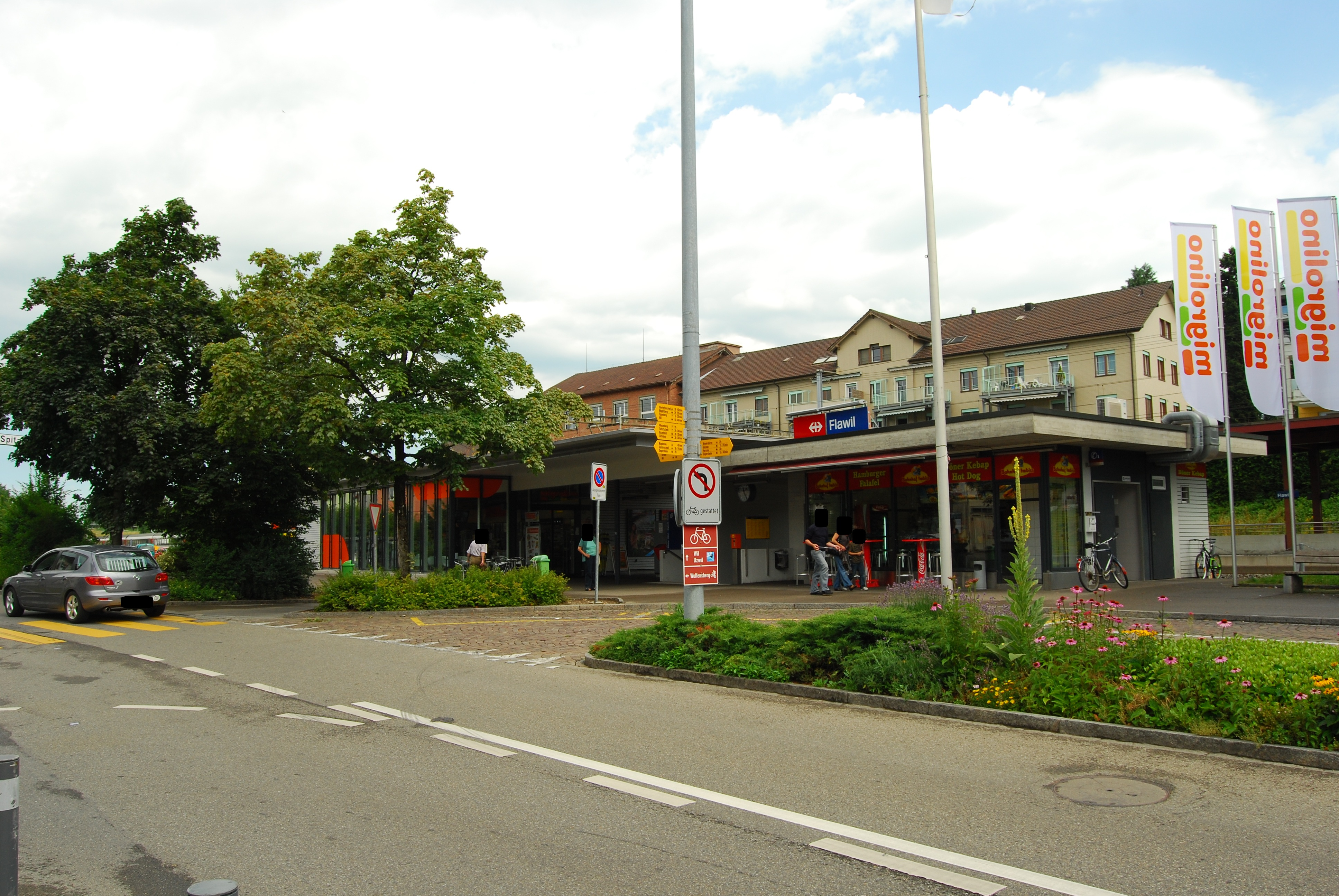 Train station of Flawil, canton of St. Gallen, Switzerland